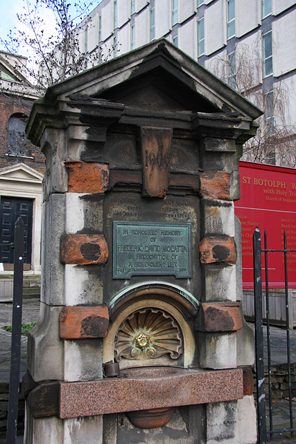 Drinking Fountain by St. Botolph Erected in 1906 in memory of Frederic David Mocatta by the Metropolitan Drinking Water Association. The years of traffic pollution have done irreparable damage, most noticeably to the brick adornments. I suspect that it has not been cleaned for fear of causing more damage.